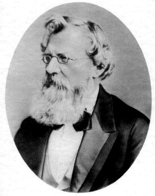 Picture of the German chemist, August Wilhelm von Hofmann (1818 – 1892)